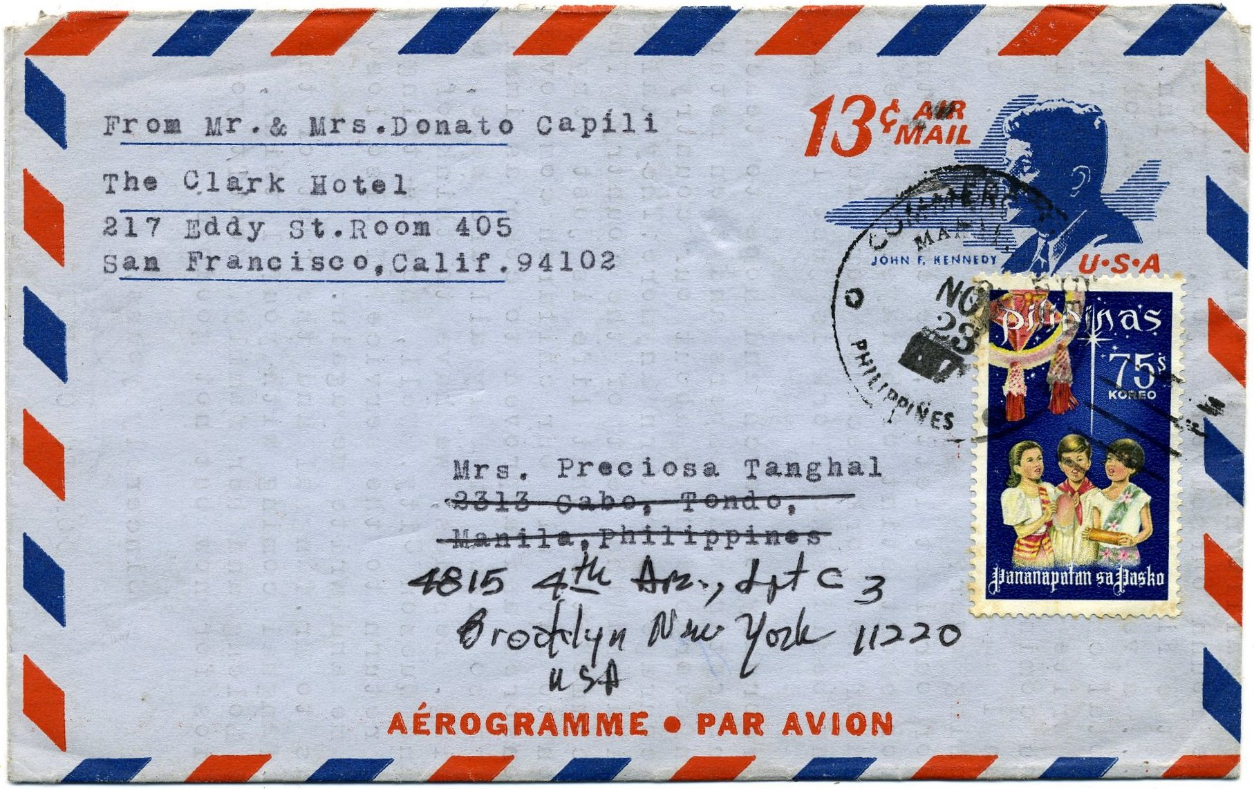 1967 US aerogram issued to accommodate postal rate increase from 11 cents to 13. John F. Kennedy memorial. Used 12 November 1970 from San Francisco, California, to Manila, Philippines. Forwarded with Philippine postage affixed to Brooklyn, New York. Back inscription: "Do not use tape or stickers to seal - No enclosures permitted".